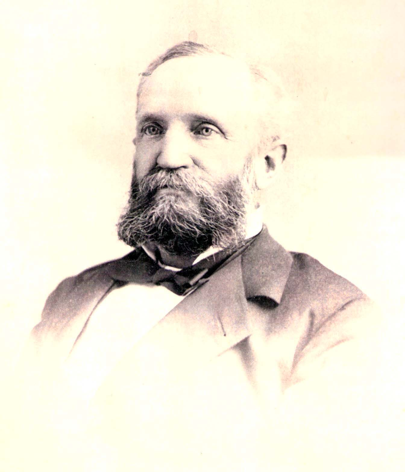 George Washington Frank, first owner of the Frank House.